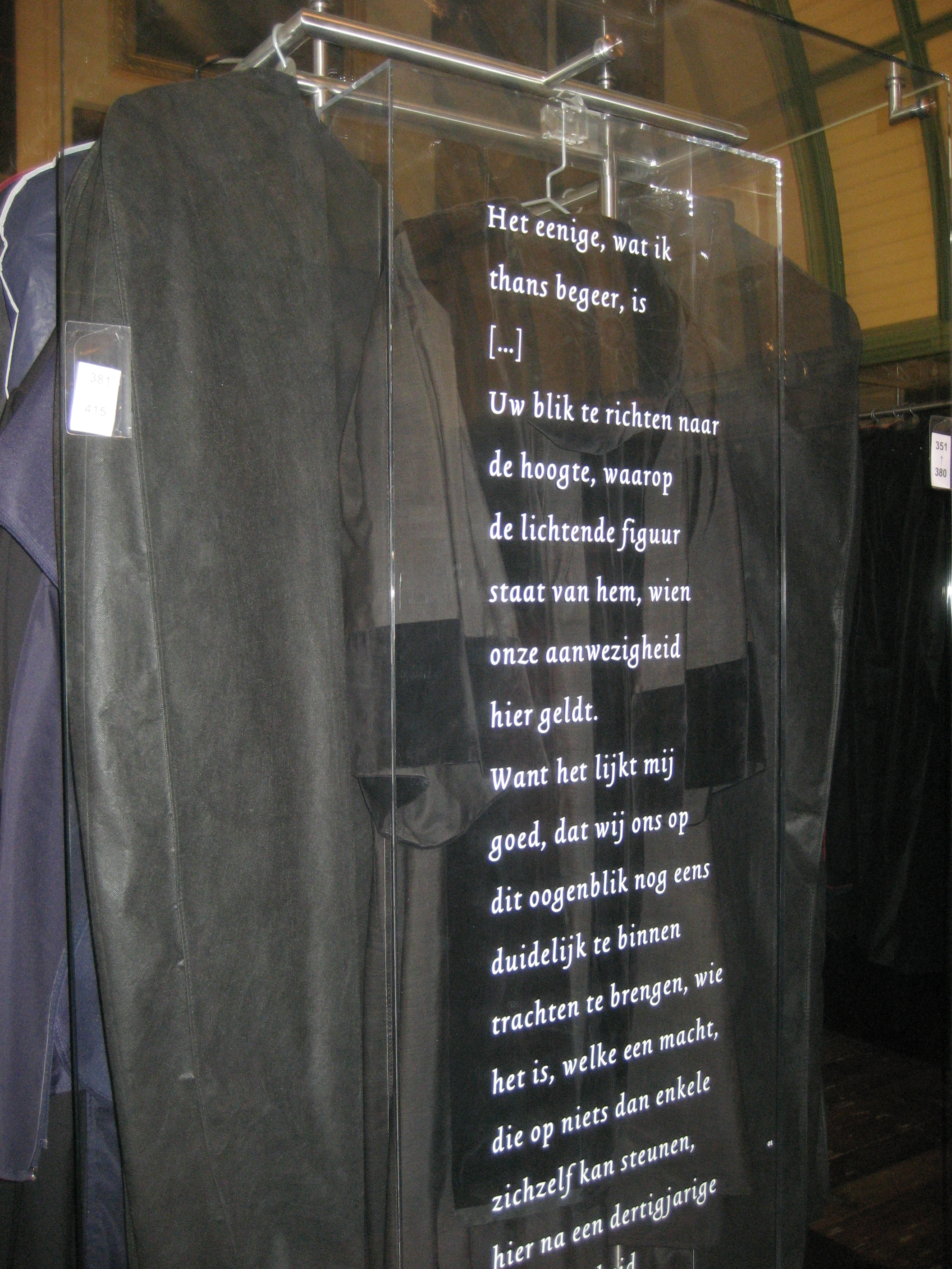 University toga Leiden University (The Netherlands). Academic gown worn by Rudolph Pabus Cleveringa.